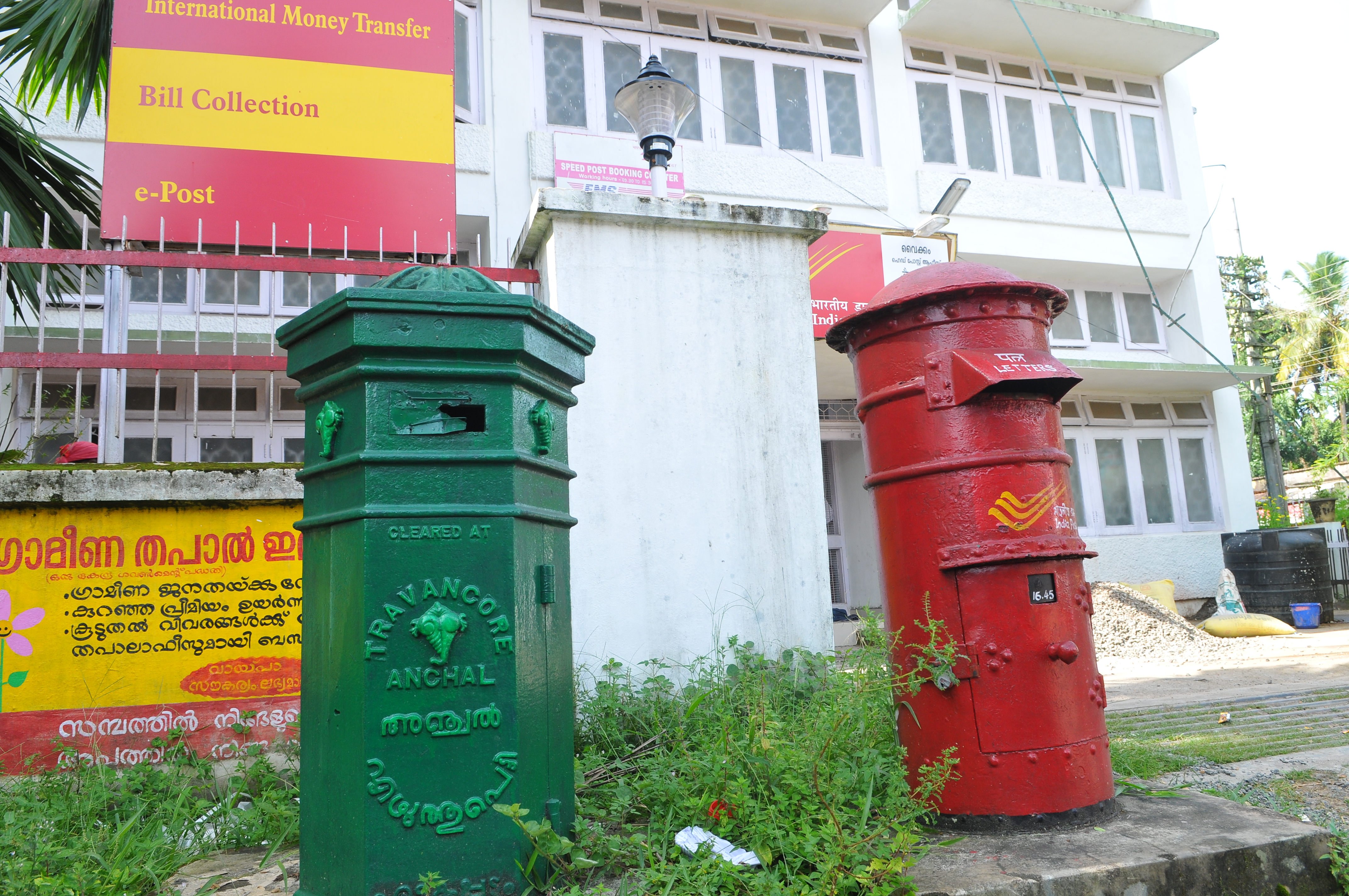 Post boxes in Kerala. The hexagonal green one on the left was made by Massey & Co of Madras for the Travancore Anchal. The cylindrical one on the right was made for the Indian Postal Service, which took over the Travancore Anchal after India annexed the Kingdom of Travancore in 1958.